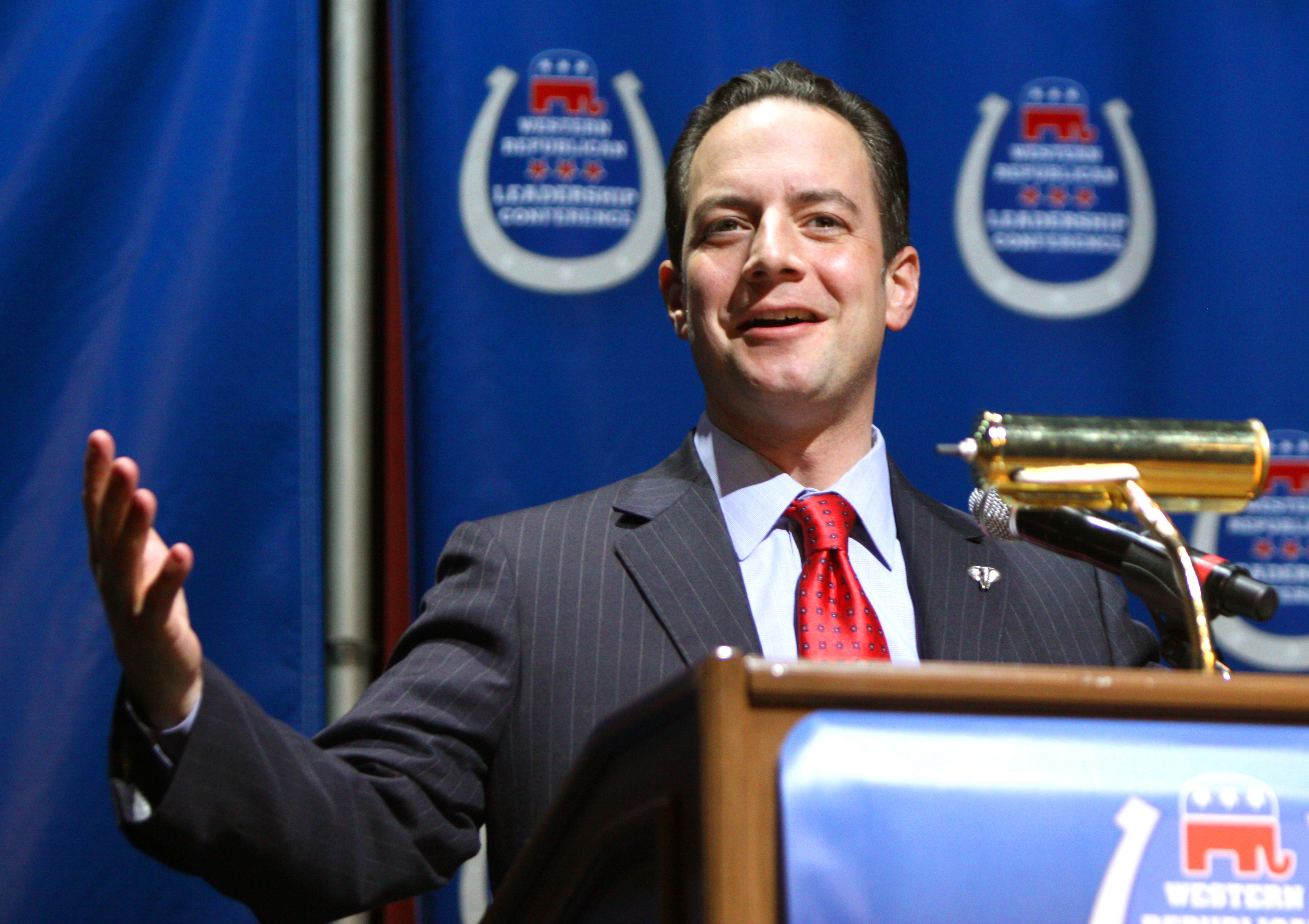 Reince Priebus at the Western Republican Leadership Conference in Las Vegas, NV.